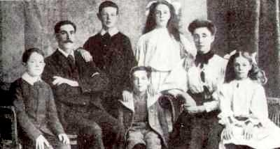 The Goodwin family